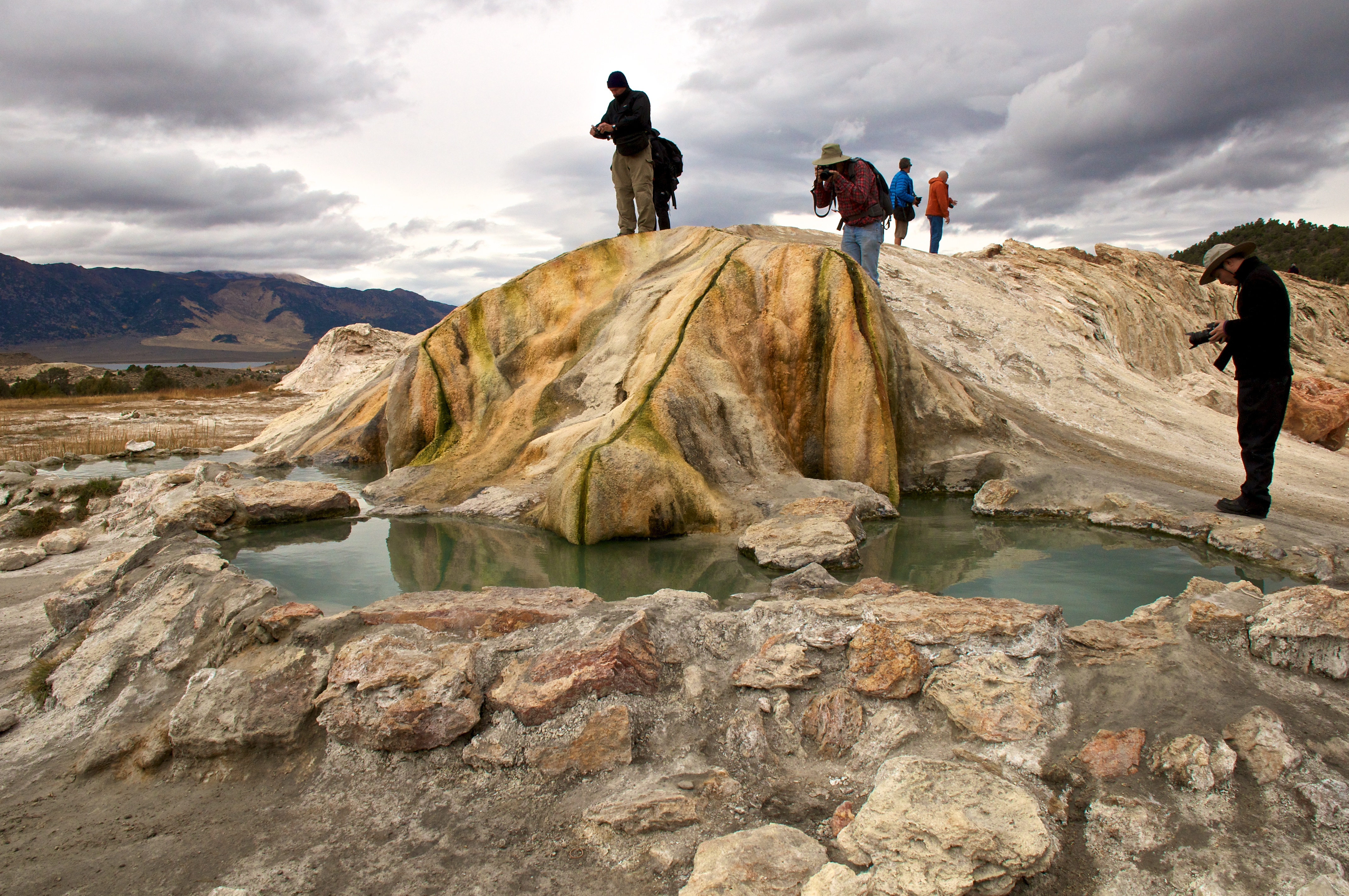 Travertine Hot Springs, photograph from Flickr by Dan DeBold